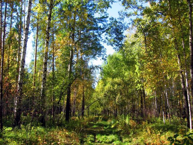 Fall in a forest in the Urals, Russia